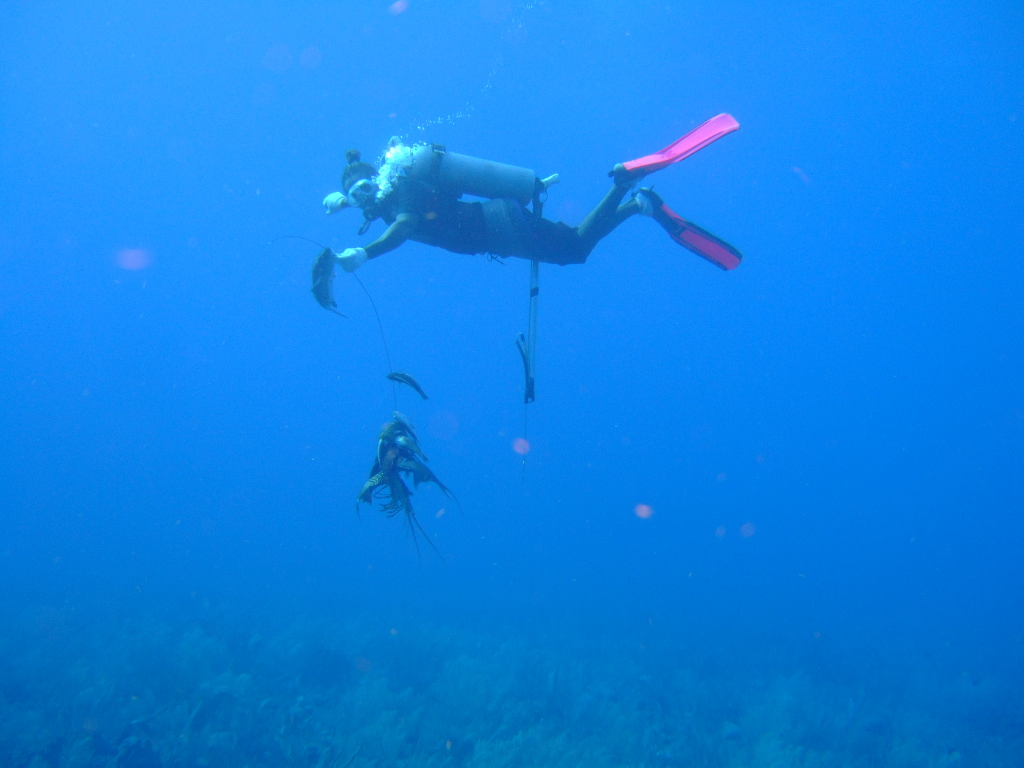 Korey Platts fishing in 15 metres visibility